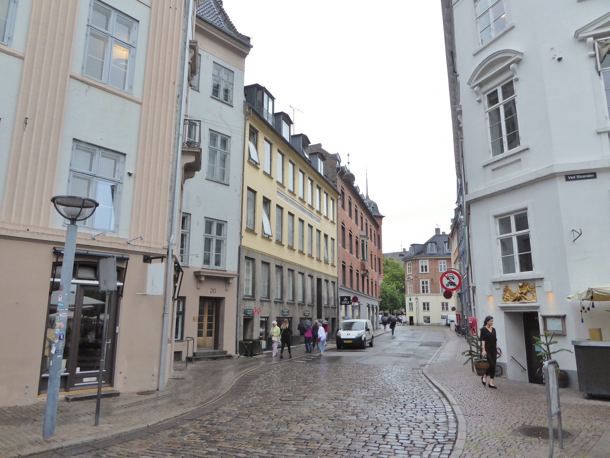 The street Fortunstræde in Indre By in Copenhagen.